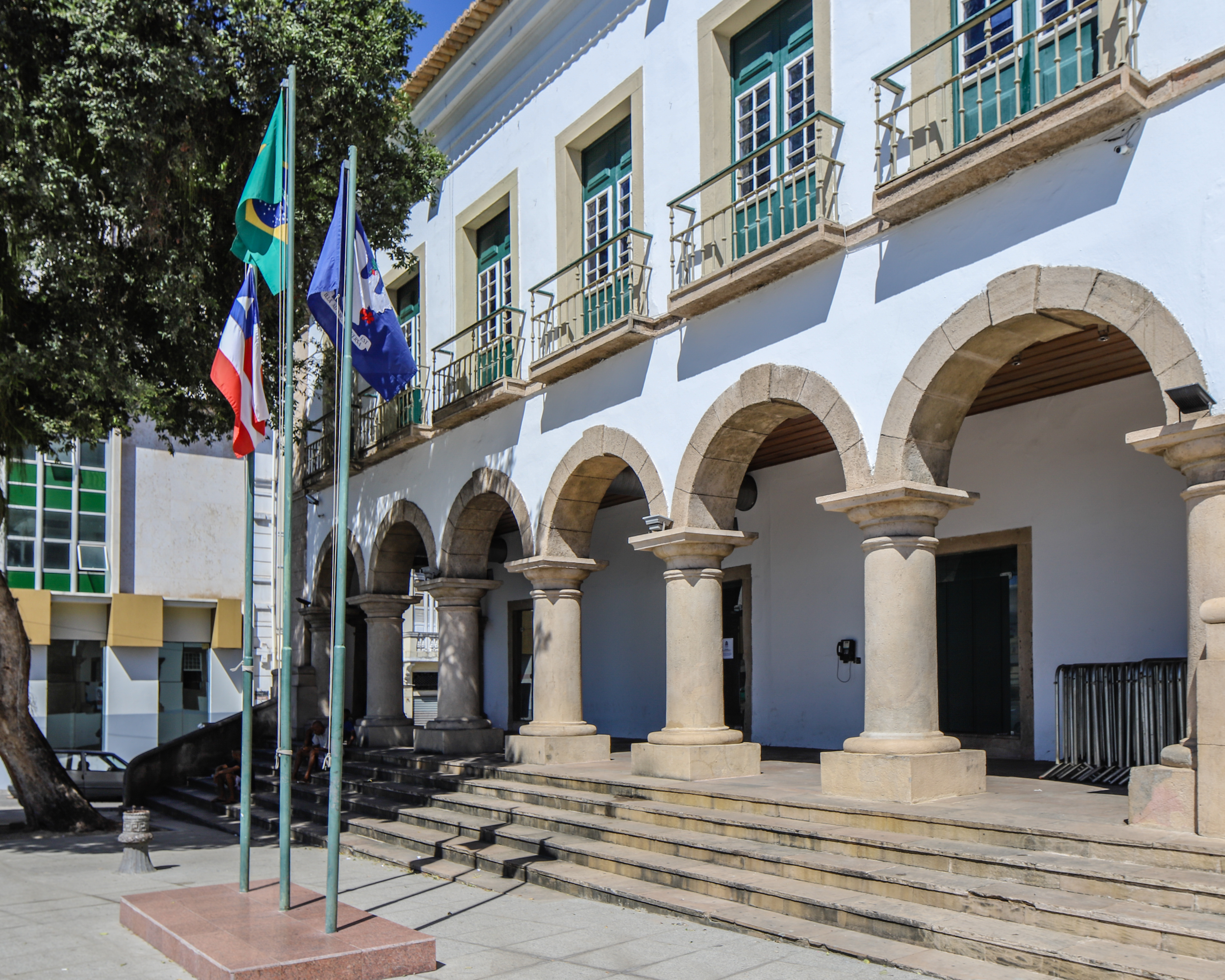 Town Hall and Prison, Salvador, Bahia, Brazil.